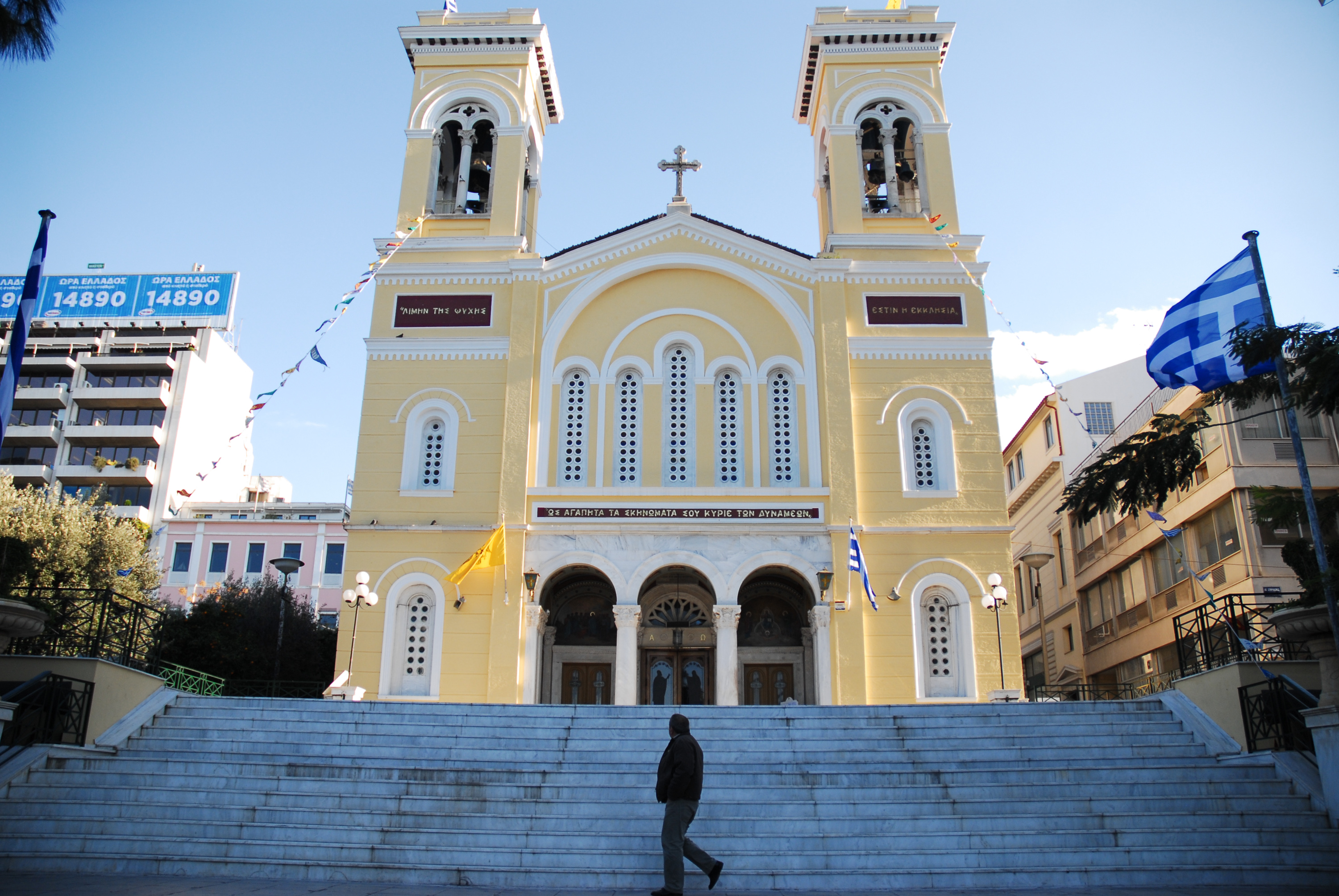 Church of Agios Spiridon, Piraeus, Greece.